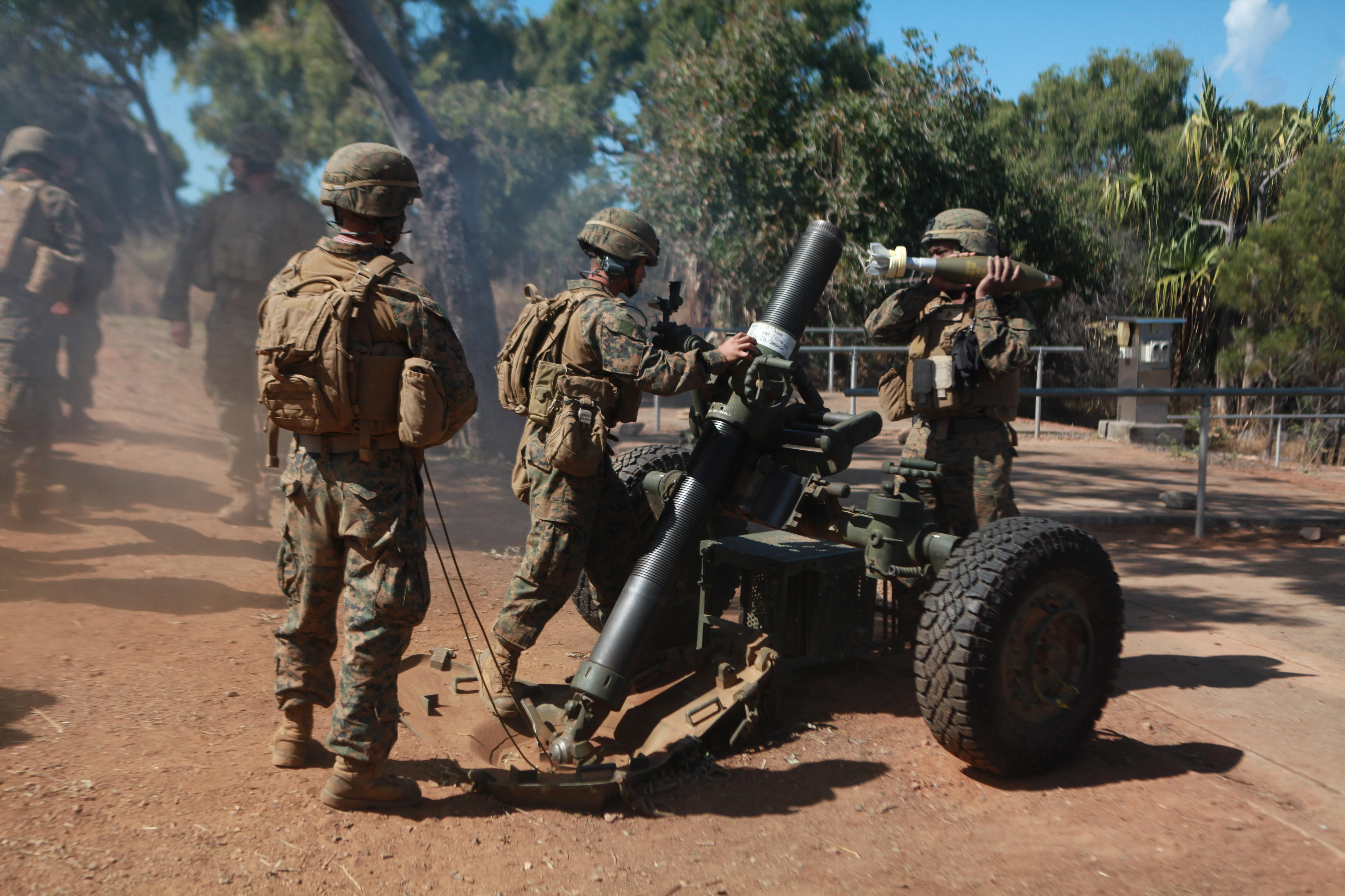 Marines with the 120mm mortar platoon for Echo Battery, Battalion Landing Team 2nd Battalion, 4th Marines, 31st Marine Expeditionary Unit, load a round into an M327 120mm mortar during a combined artillery and close air support training exercise following the conclusion of Talisman Saber 2013 in August 2013.